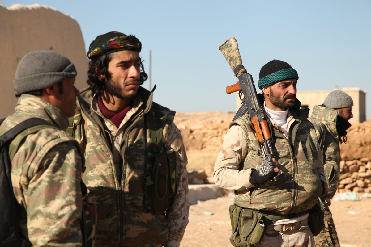 Kurdish YPG fighters at the Raqqa frontline in December 2016.